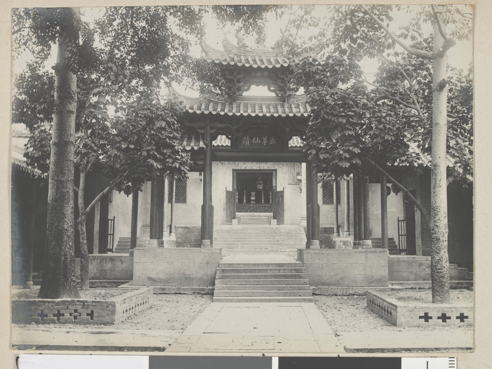 "A leafy bower - Viceroys Club & Temple. Canton." Chinese reads: 5 Sheep Immortals Resort Possibly Guangzhou's Temple of the Five Immortals